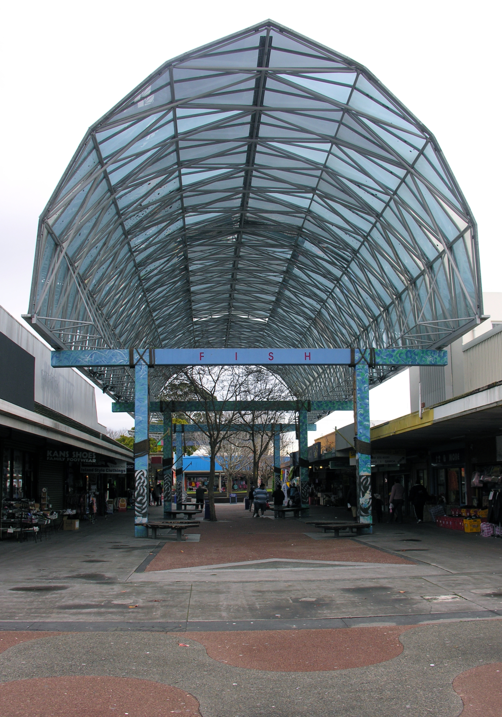 Otara Town Centre, South Auckland, New Zealand, 23 June 2006.